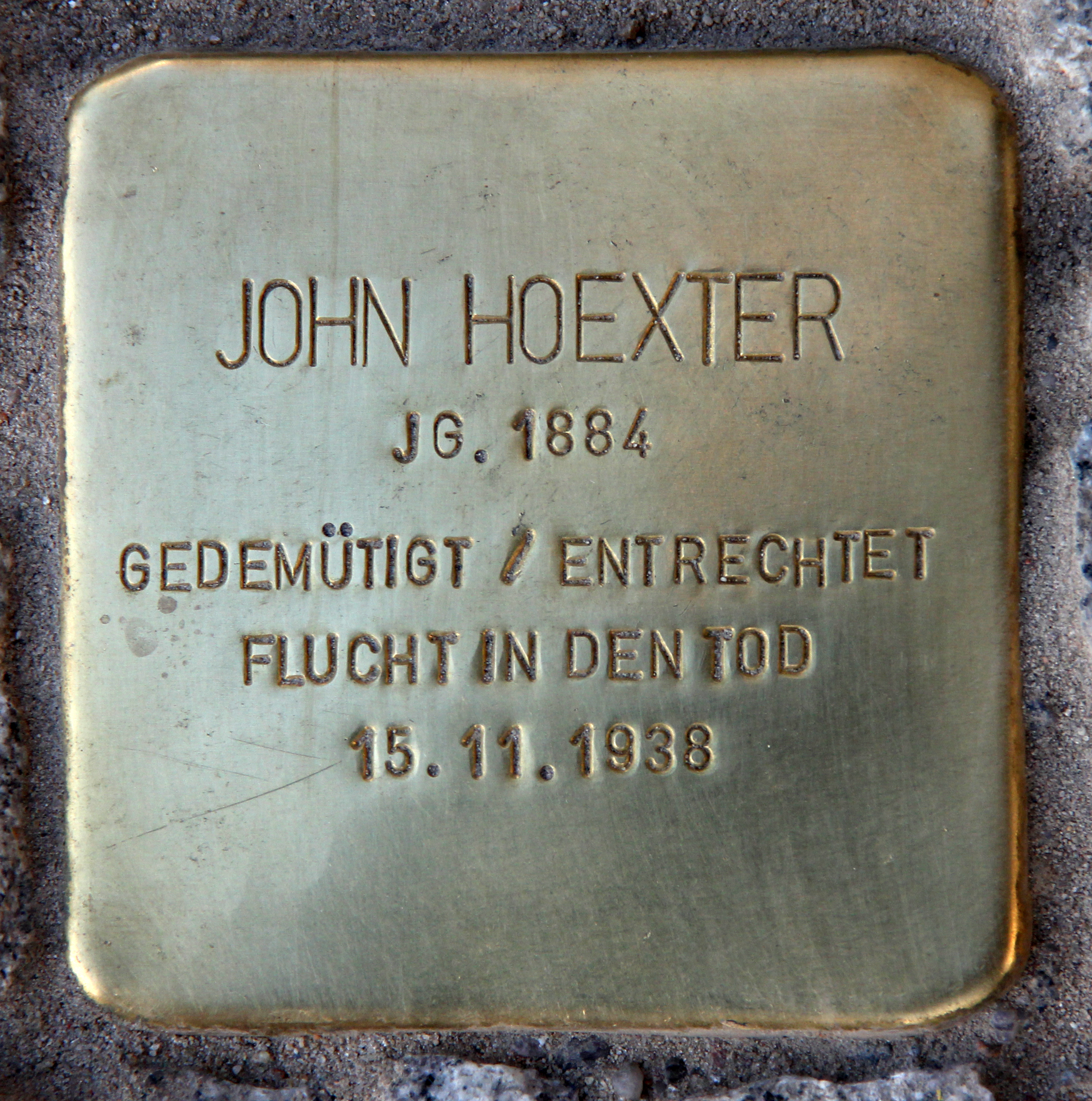 "Stolperstein" (stumbling block), John Höxter, Hardenbergstraße 28a, Berlin-Charlottenburg, Germany